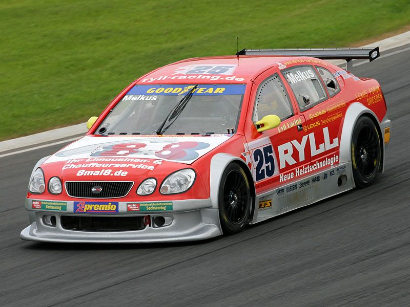 Ronny Melkus, V8-Star on Sachsenring Circuit.